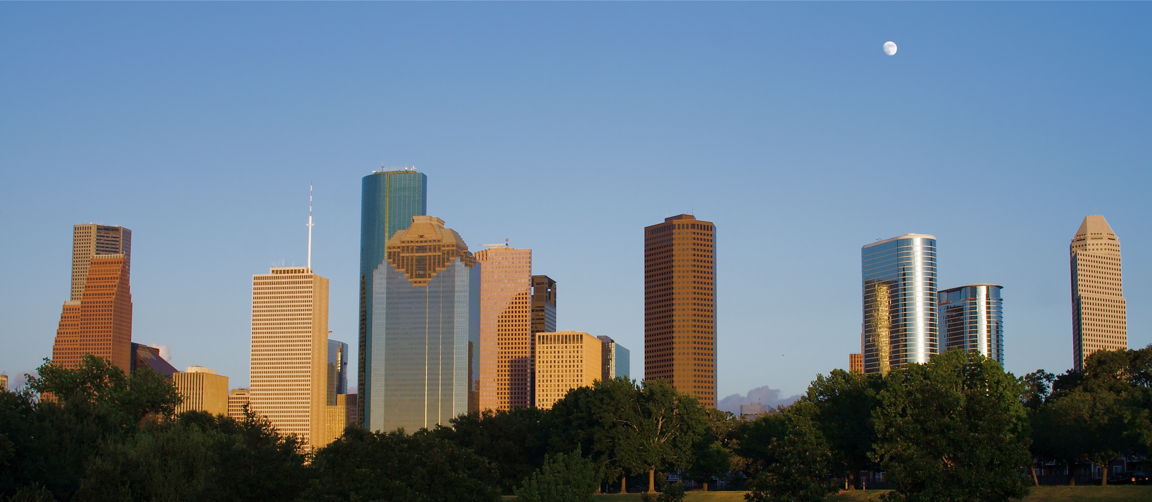 Downtown Houston skyline, Houston, Texas.